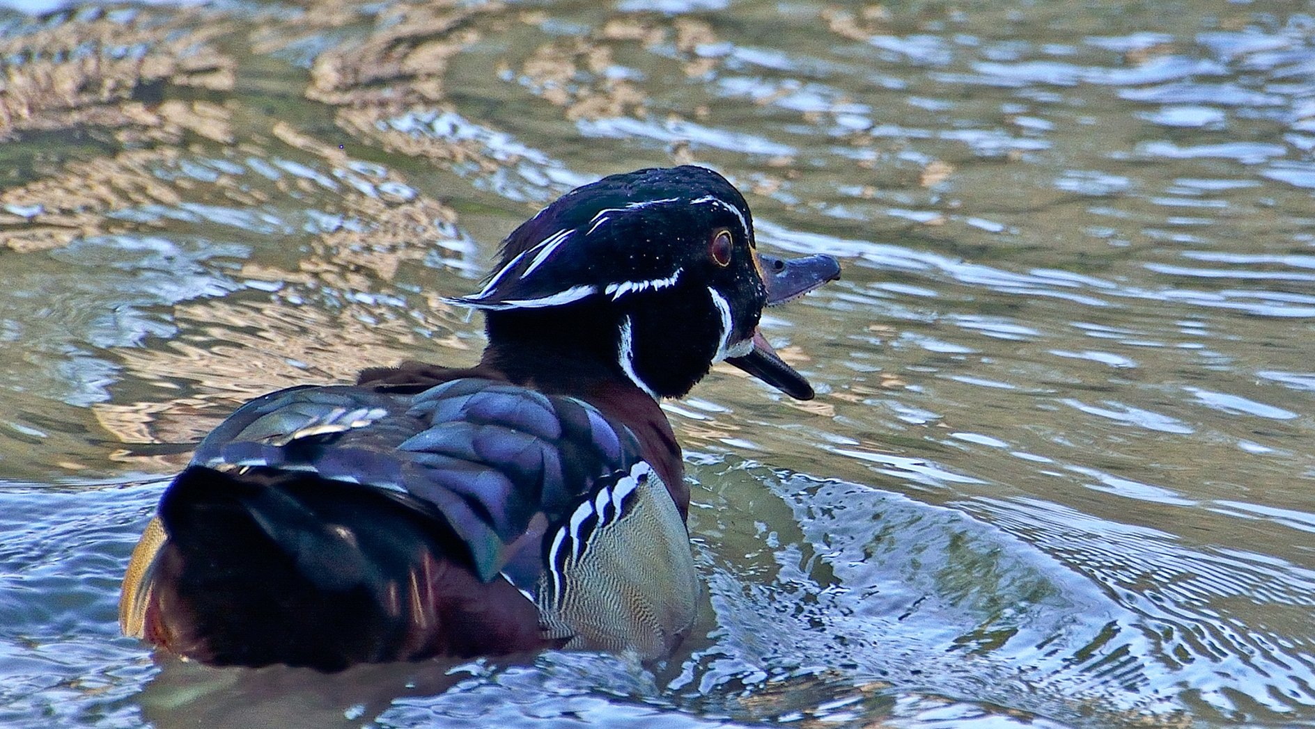 Wood Duck Aix sponsa, Central Park, New York, USA.